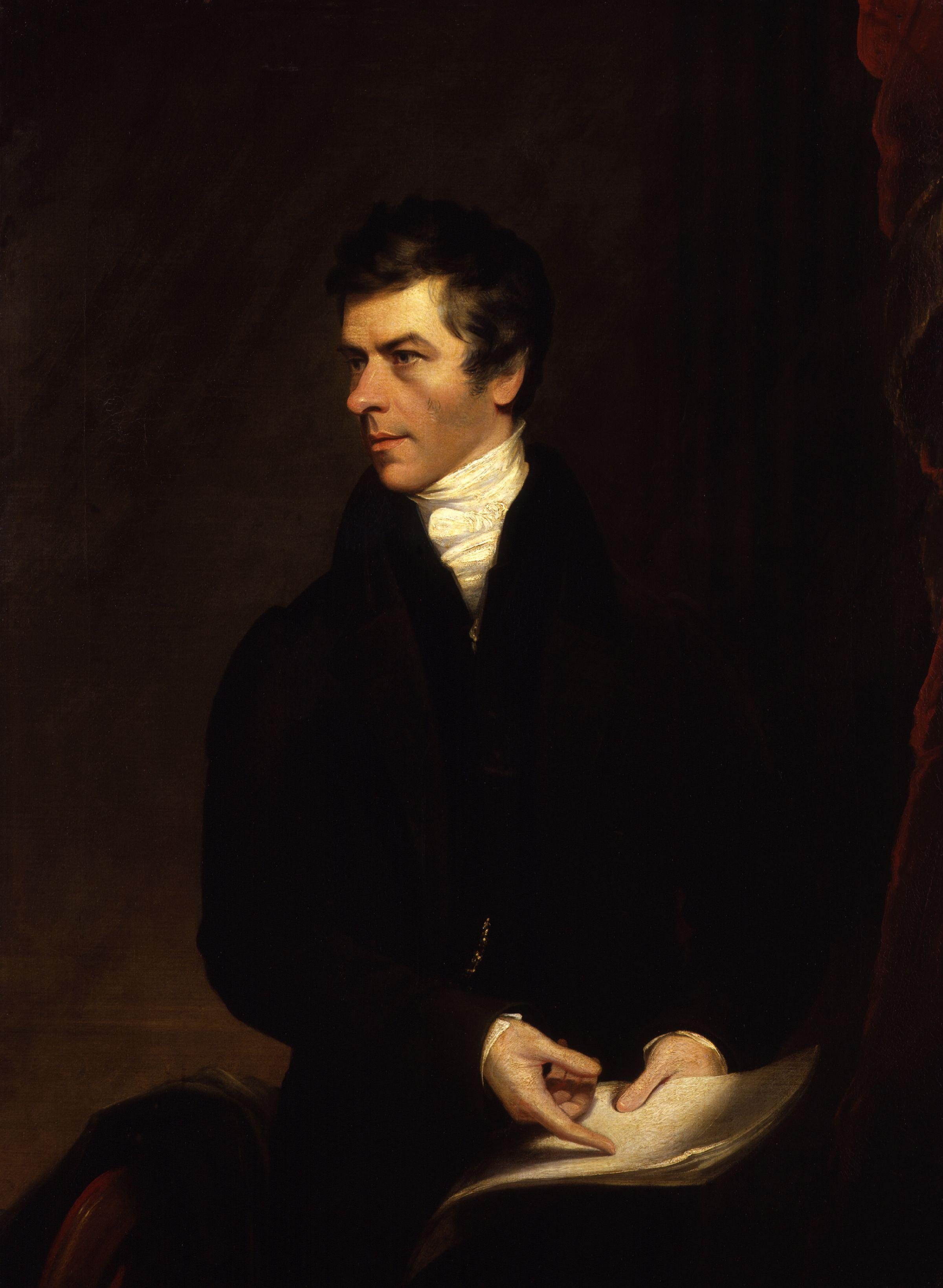 Henry Brougham, 1st Baron Brougham and Vaux, by James Lonsdale (died 1839), given to the National Portrait Gallery, London in 1873. All images in this batch have been confirmed as author died before 1939 according to the official death date listed by the NPG.